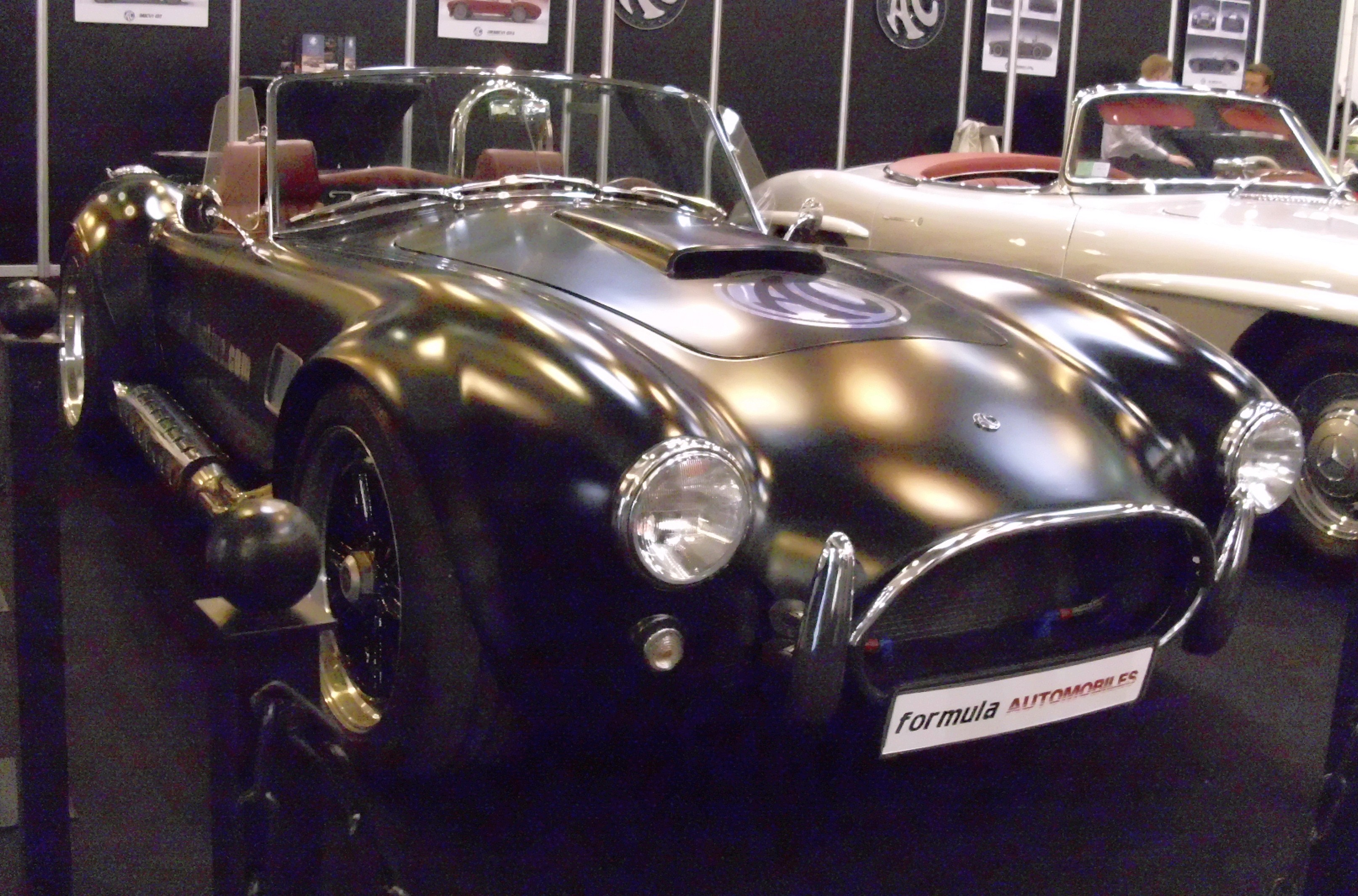 AC Automotive 2014